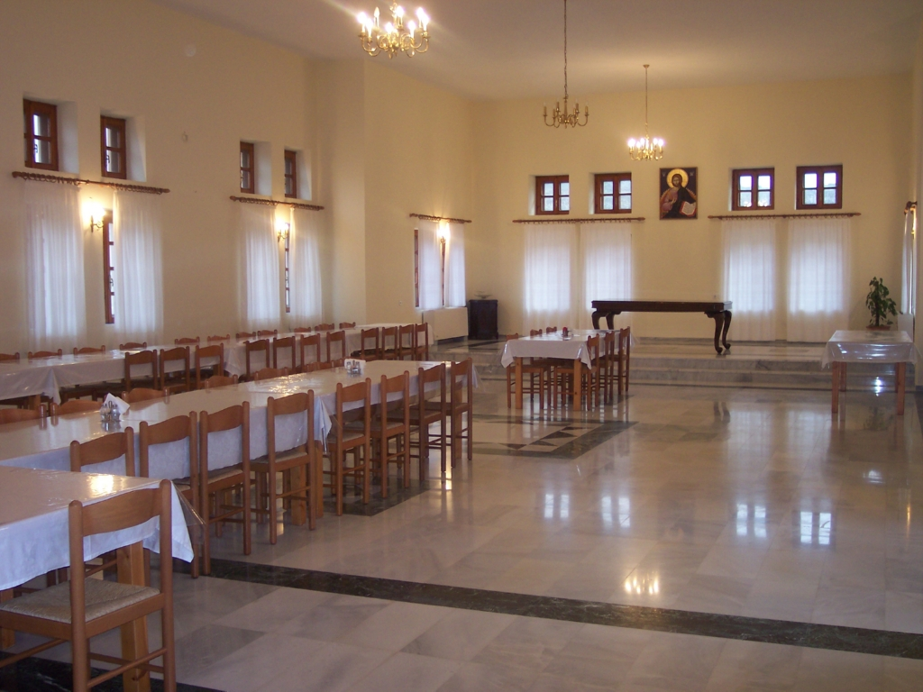 A room in the non-profit Omylia Center where patients may stay.